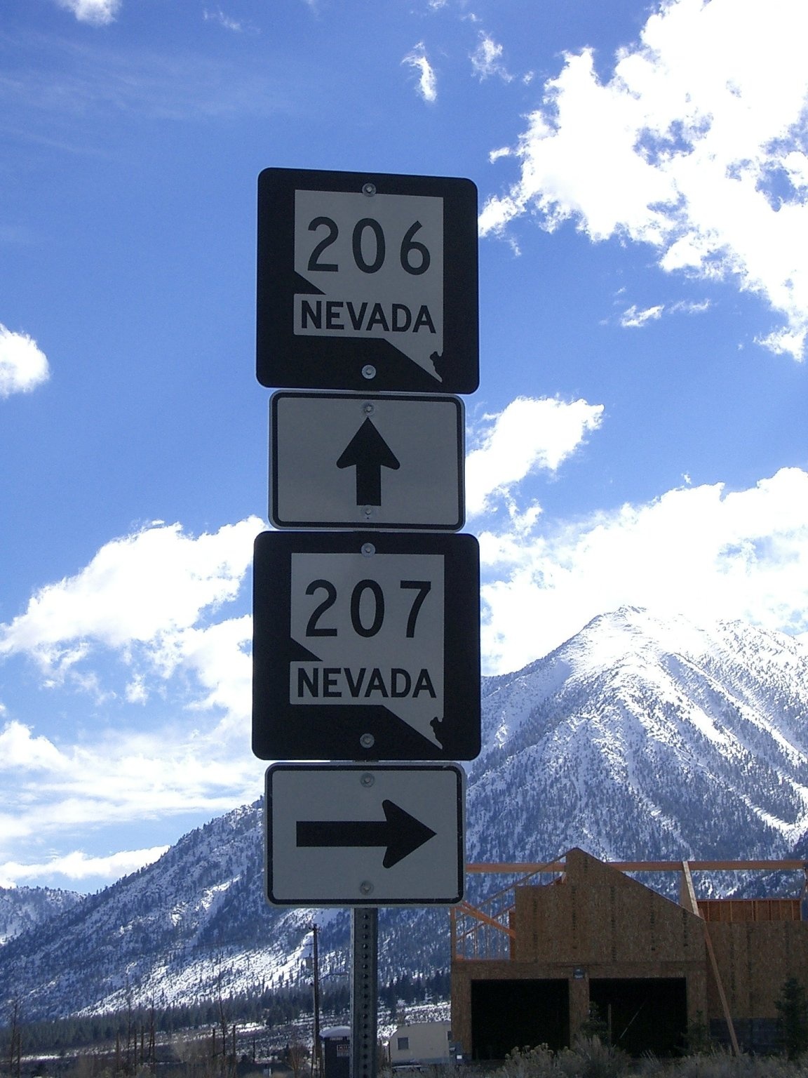 Nevada state highway signposts — in front of Jobs Peak of the Carson Range.